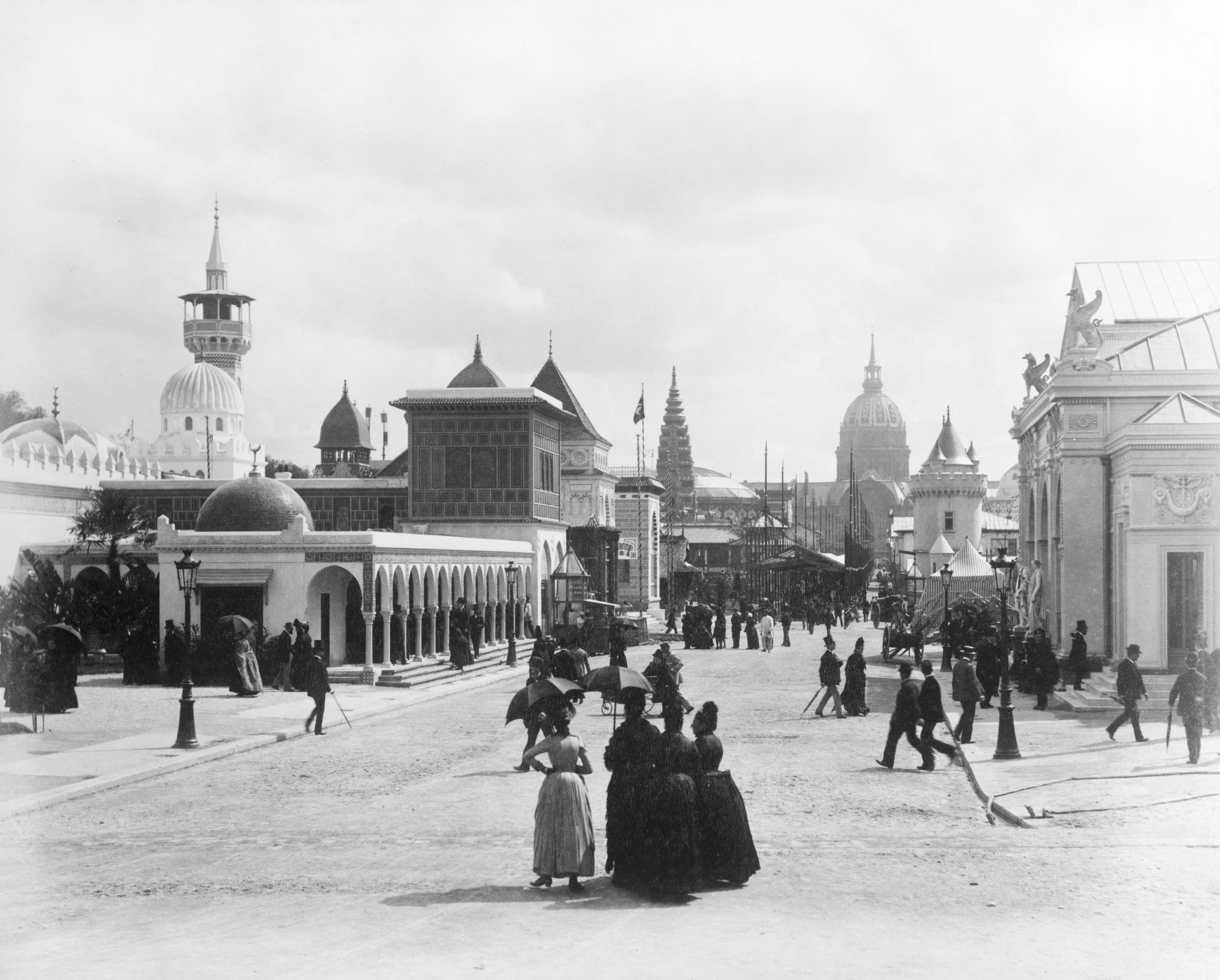 Street view, looking toward Palais des Invalides, showing pavilions on L'Esplanade des Invalides, Paris Exposition, 1889